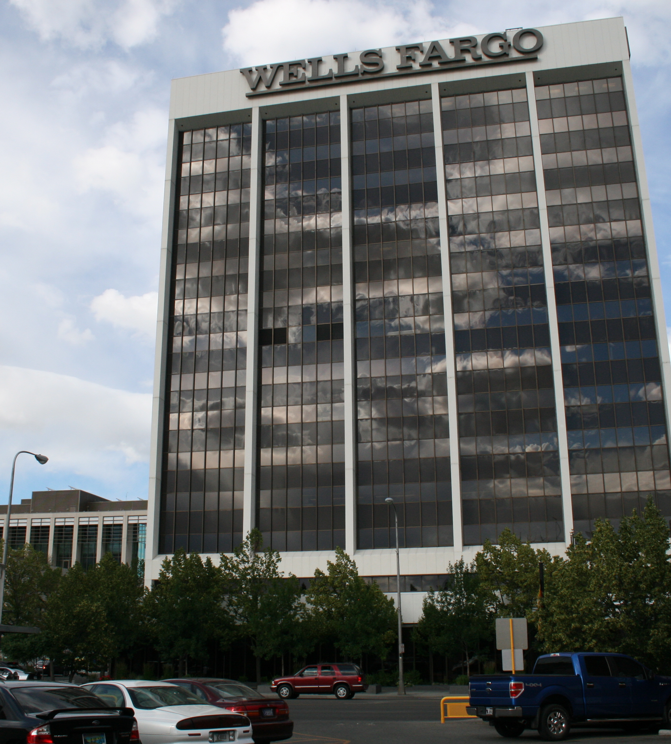 Billings, Montana, Wells Fargo Plaza